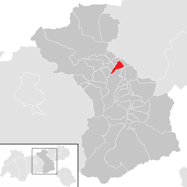 District Schwaz